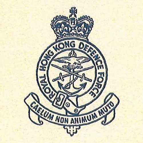 Logo of the Royal Hong Kong Defence Force